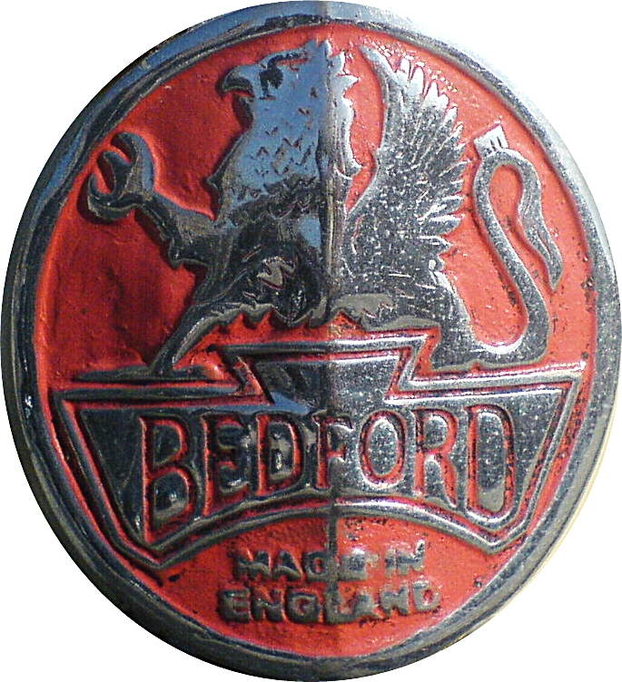 The crest from a old Bedford Ambulance.